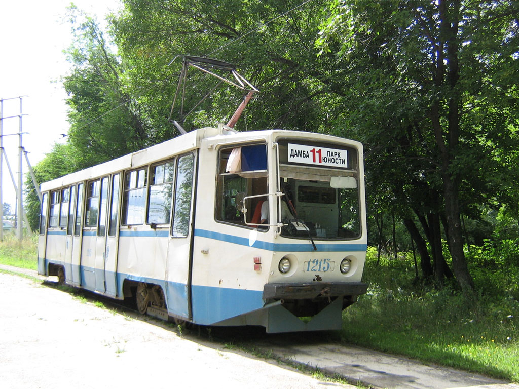 KTM-8 tramcar in Ulyanovsk